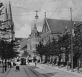 Düsseldorf, Blick in die Oststraße, rechts Wohn- und Geschäftshaus Ludwig Kraus Oststraße 60 Ecke Klosterstraße, rechts Franziskanerkloster.JPG